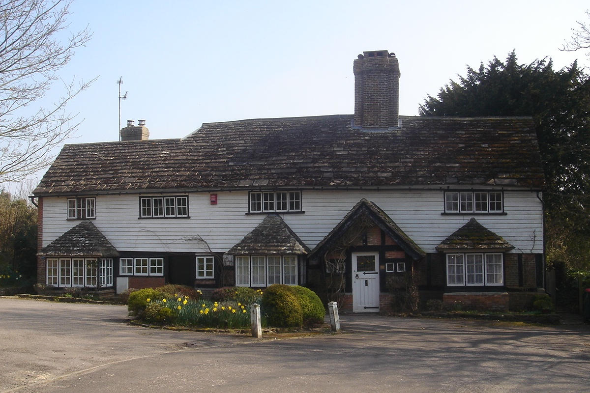 Street House, Worth, Borough of Crawley, West Sussex, England: a 17th-century timber-framed former inn next to St Nicholas' Church. Listed at Grade II by English Heritage (IoE code 363411)